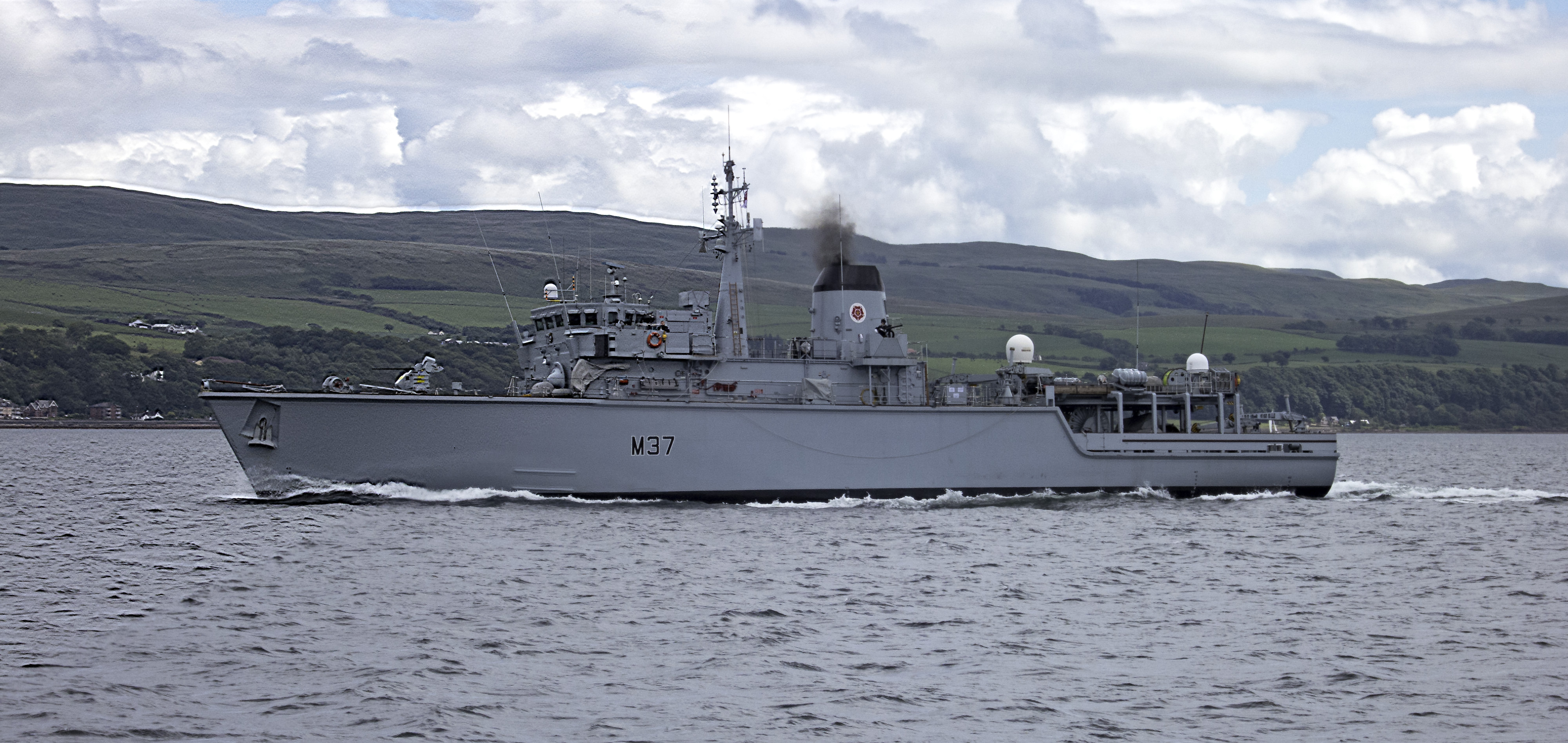 HMS Chidingford on the Clyde